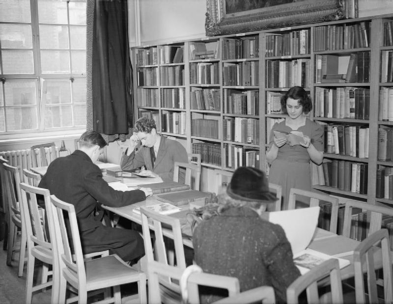 Night School Girl- Evening Classes in Wartime London, C 1940 Mrs Ridley studies a book in the library at the City Literary Institute, London. Mrs Ridley took evening classes in singing and drama.